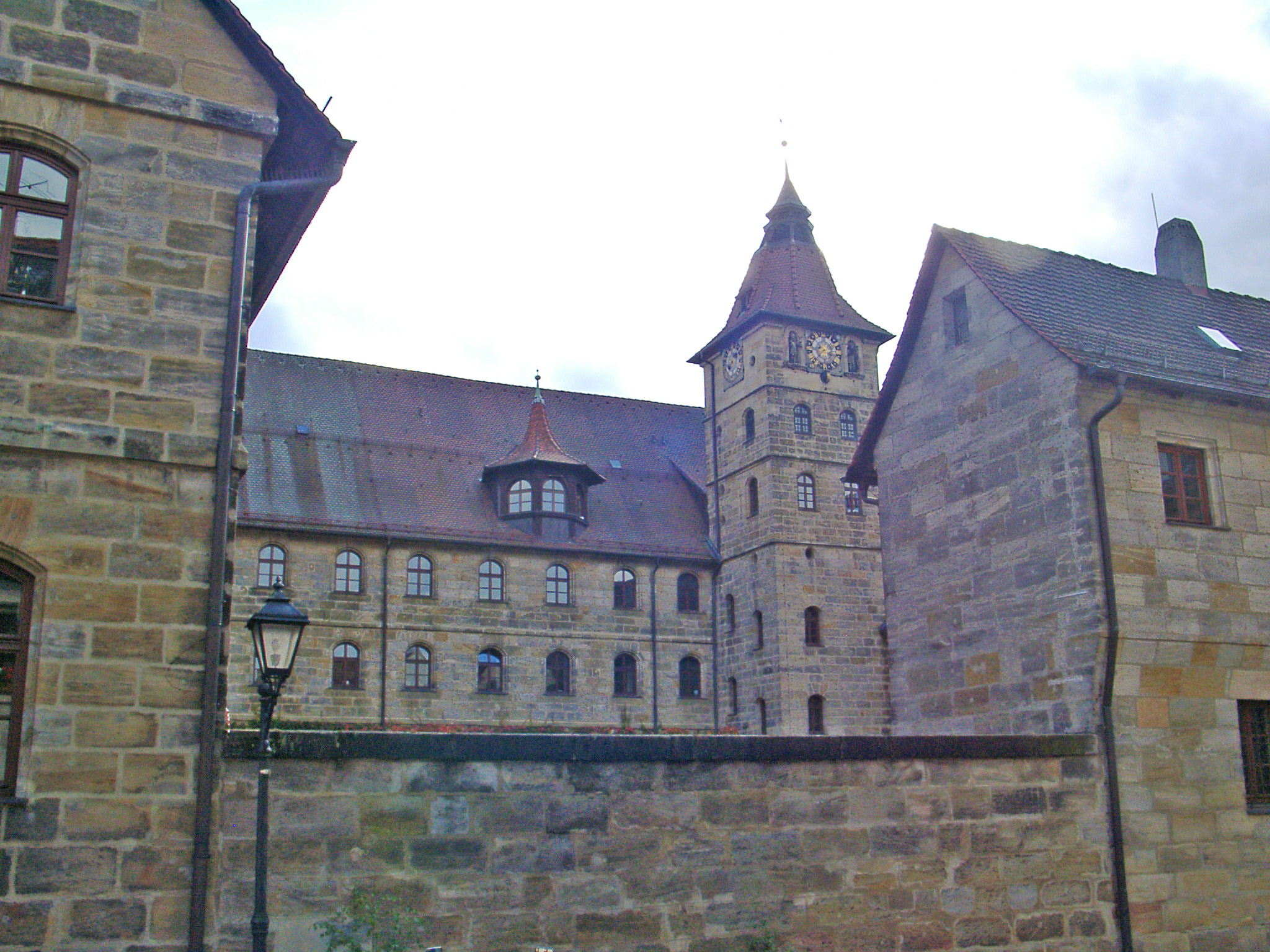 Former University of Altdorf